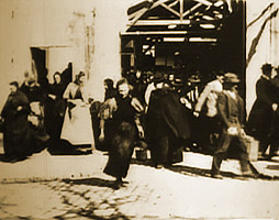 Screencap from Workers Leaving the Lumiere Factory.